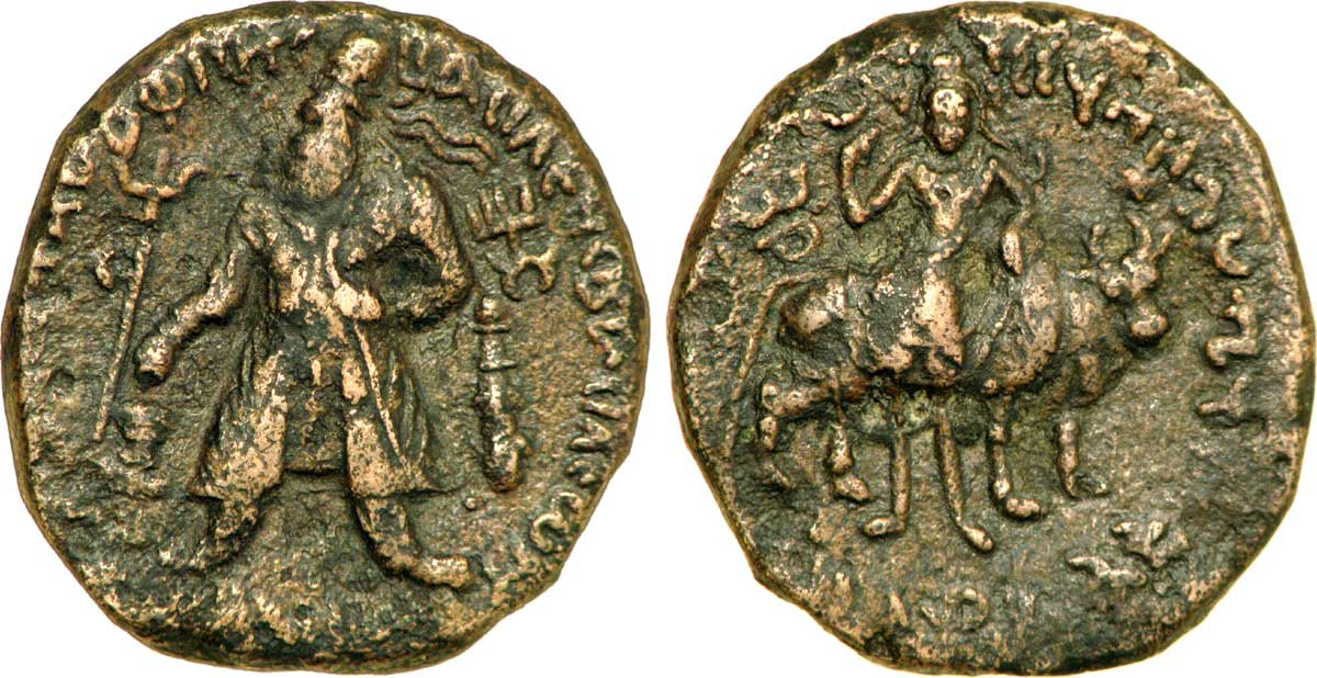 Unité du royaume de Koushan à l'effigie de Vima Kadisphirès Date : c. 105-130 Description avers : Le roi de bout de face, la tête tournée à gauche, richement vêtu, sacrifiant de la main droite devant un autel et tenant un sceptre de la main gauche ; de chaque côté, un trident à gauche et une massue verticale à droite et la tamgha . Description revers : Siva debout de face devant un taureau tourné à droite